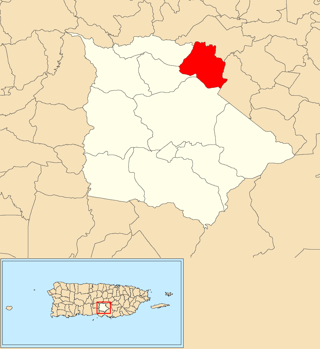 Pulguillas, Coamo, Puerto Rico, locator map